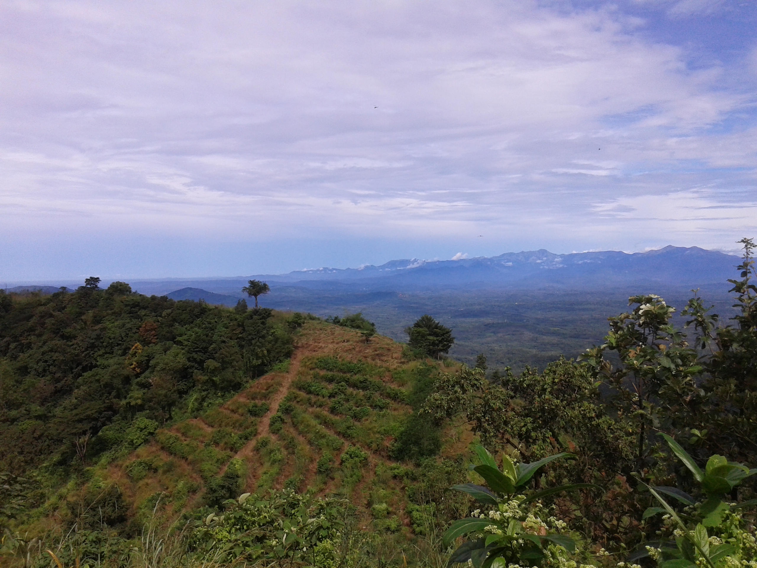 Elapeedika